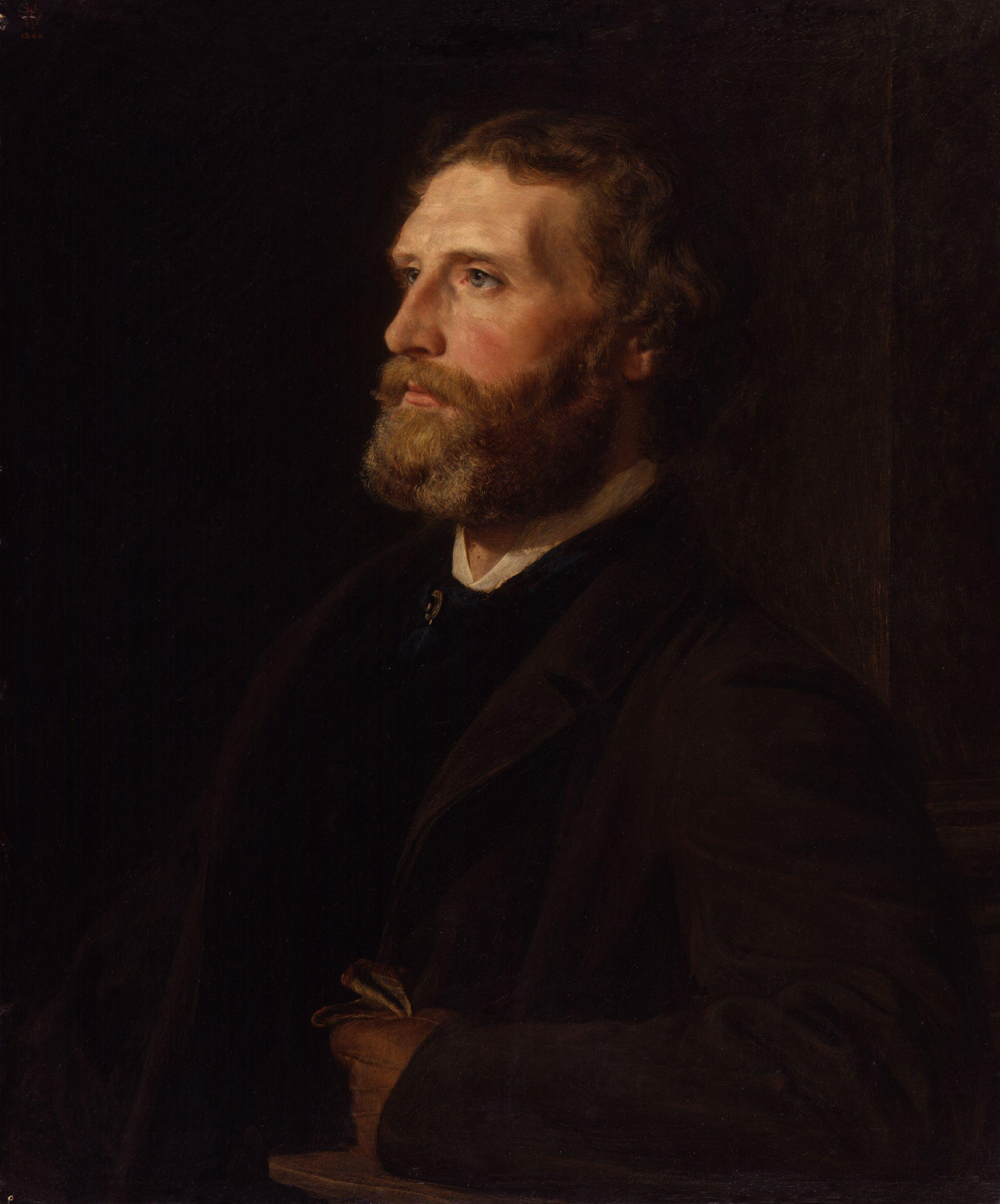 Sir Frederic William Burton, by Henry Tanworth Wells (died 1903), given to the National Portrait Gallery, London in 1913. All images in this batch have been confirmed as author died before 1939 according to the official death date listed by the NPG.